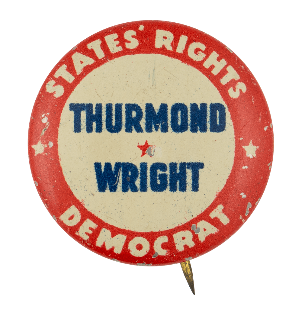 A 1948 presidential election political button showing support for the Dixiecratic nominees Strom Thurmond and Fielding L. Wright